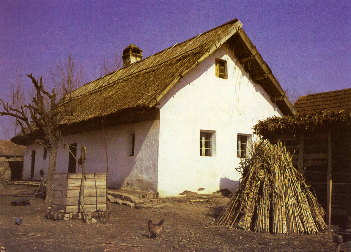 Country house in Ruski Krstur, courtyard facade